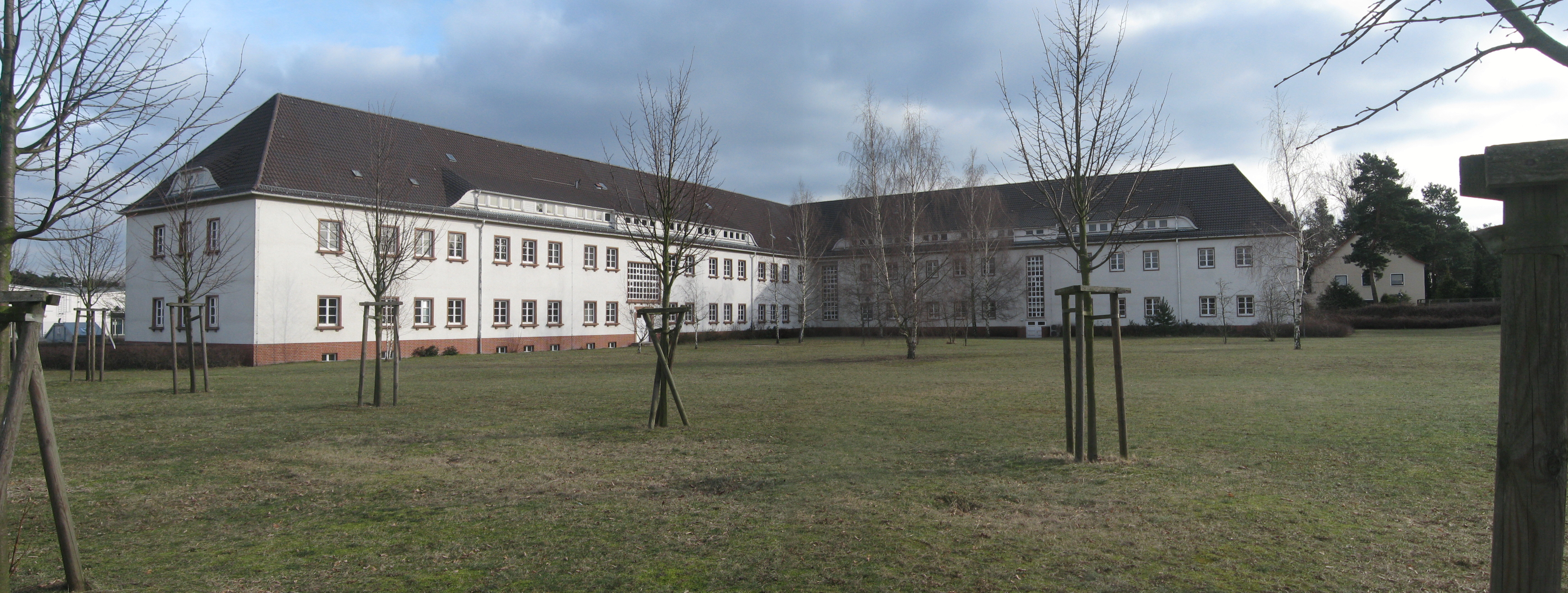 so-called T-building in Oranienburg, view from northwest; picture stiched from 2 single photos